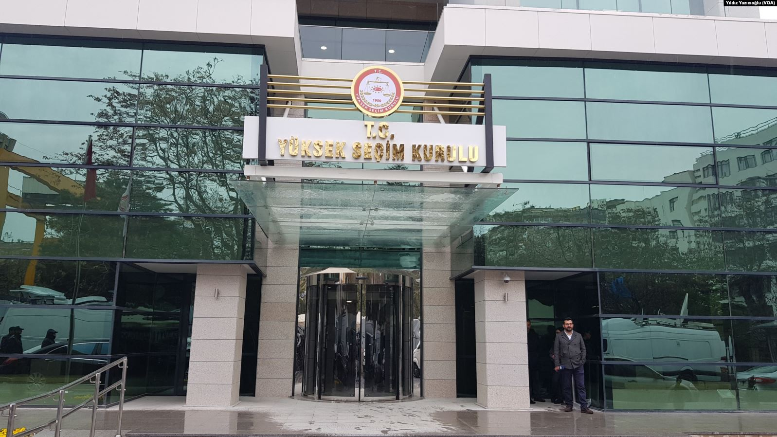 Yüksek Seçim Kurulu (YSK) binası, Ankara, Türkiye.